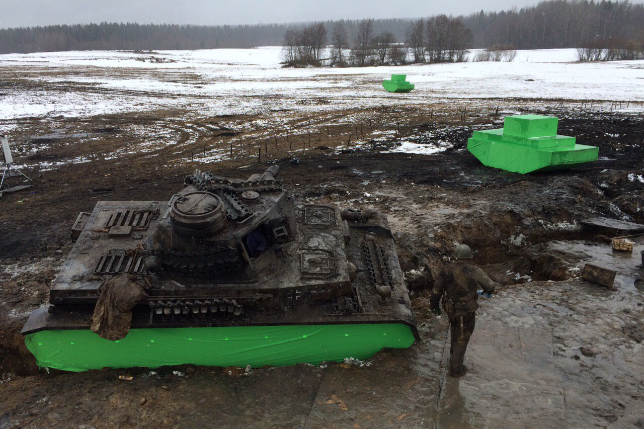 1:1 model of the tank PzKpfw IV during the shootings of the film Panfilov's 28 men. The green models have been replaced by 1:16 models during the post-production phase